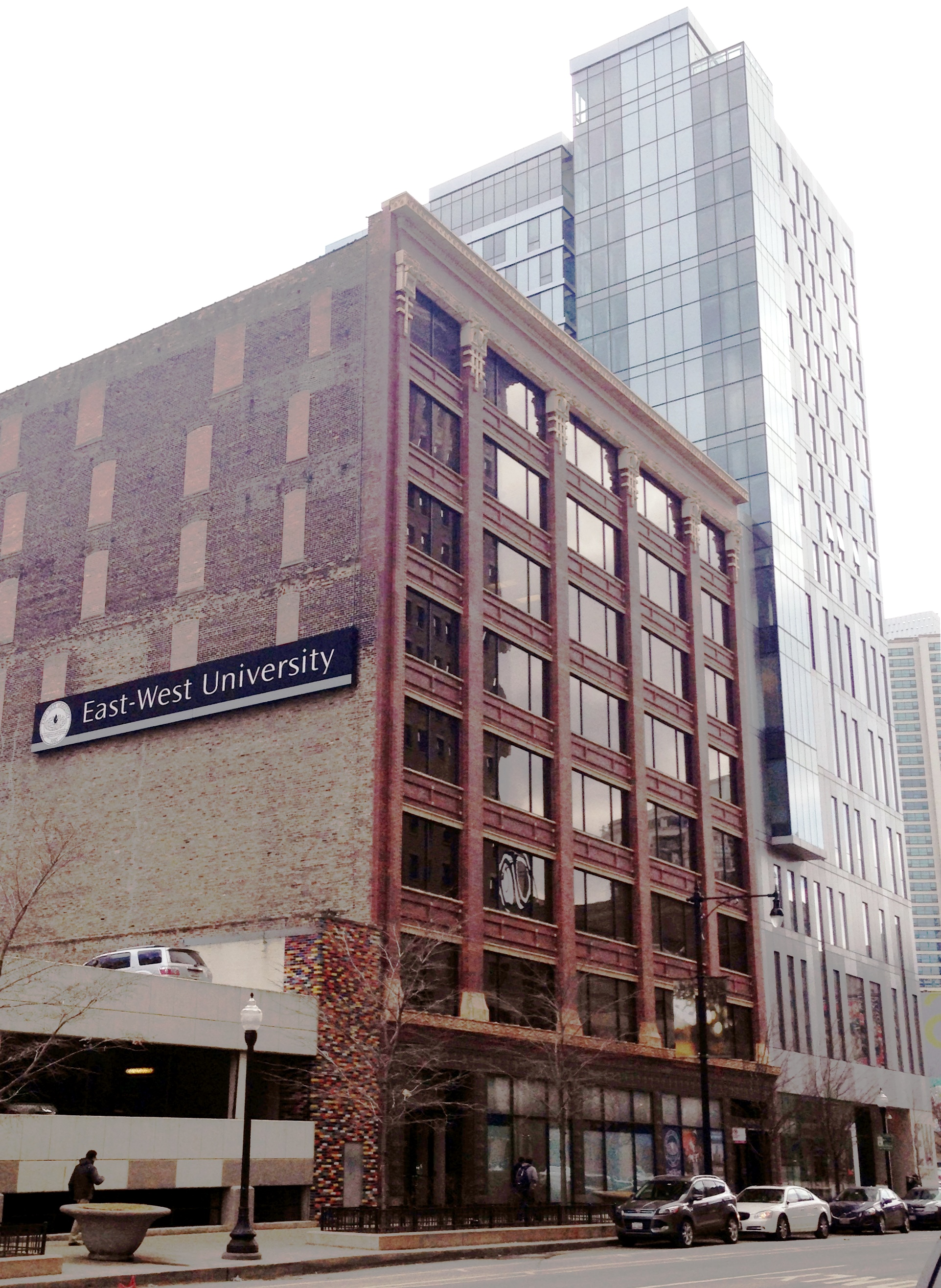 East-West University buildings on South Wabash Avenue in Chicago. 819 & 829 S. Wabash Ave.